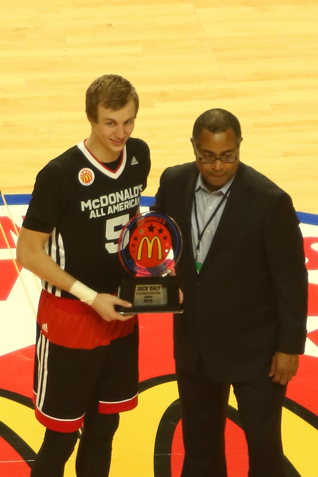 Luke Kennard in the w:2015 McDonald's All-American Boys Game